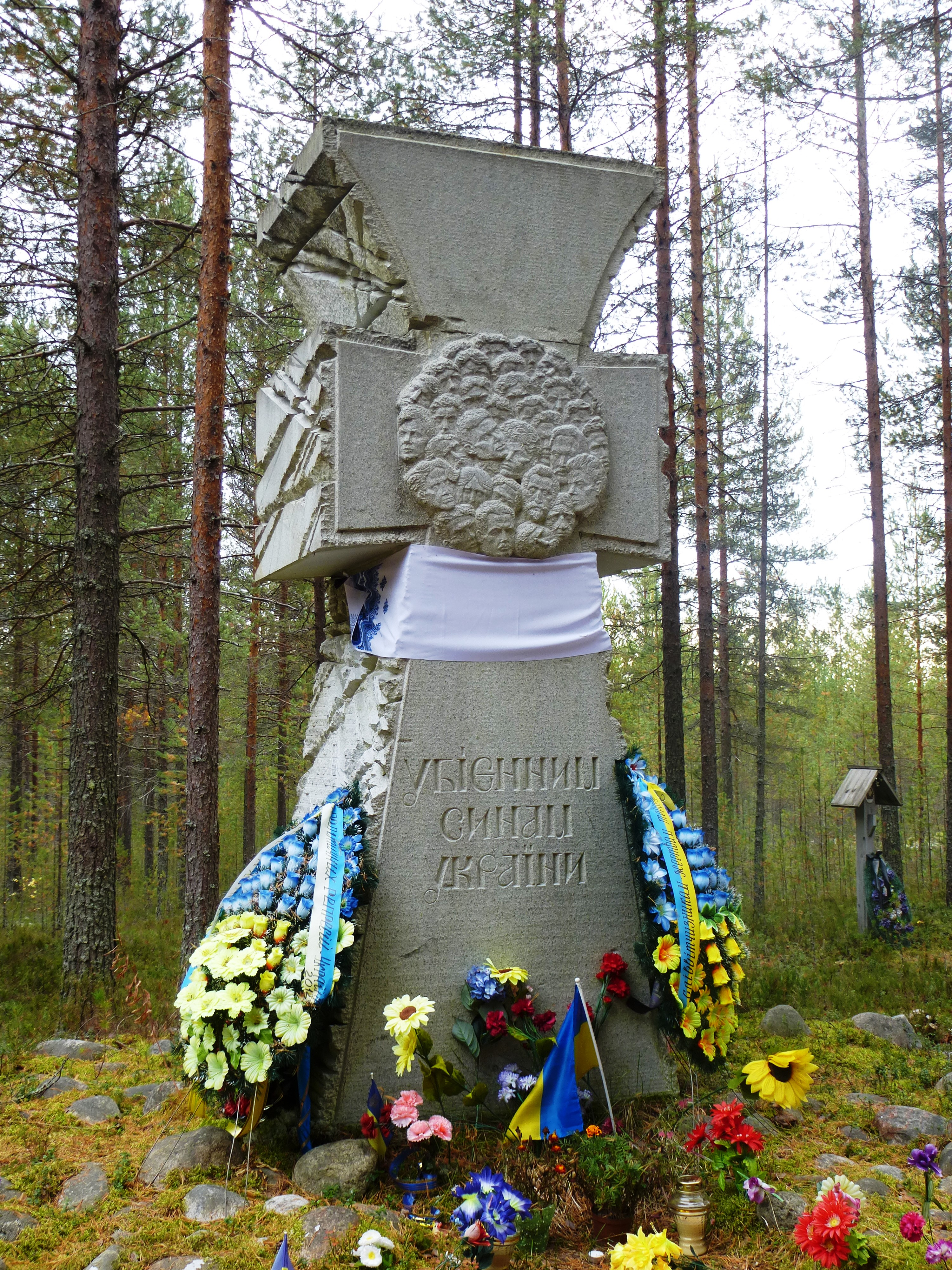 The memorial stone at the site of execution and burial of victims of the Great Purge in Sandarmokh, forest massif near Medvezhyegorsk in the Republic of Karelia, Russia. The text on the stone is "devoted to the murdered sons of Ukraine".